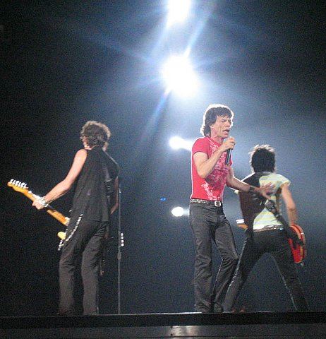 Rolling Stones concert Sep 26 - 2005 (Rogers Skydome - Toronto) [Photo taken by Shahid-G]